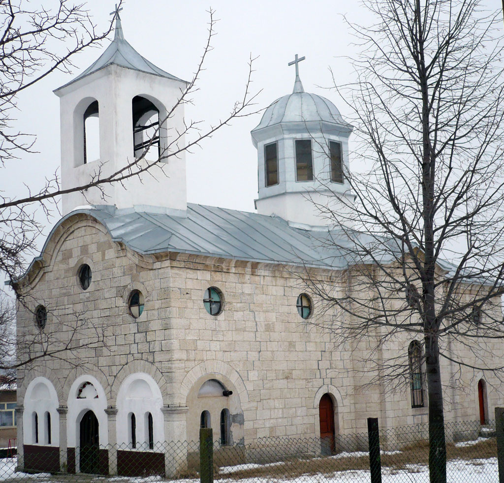 St. Paraskeva church in Altimir village, Bulgaria.